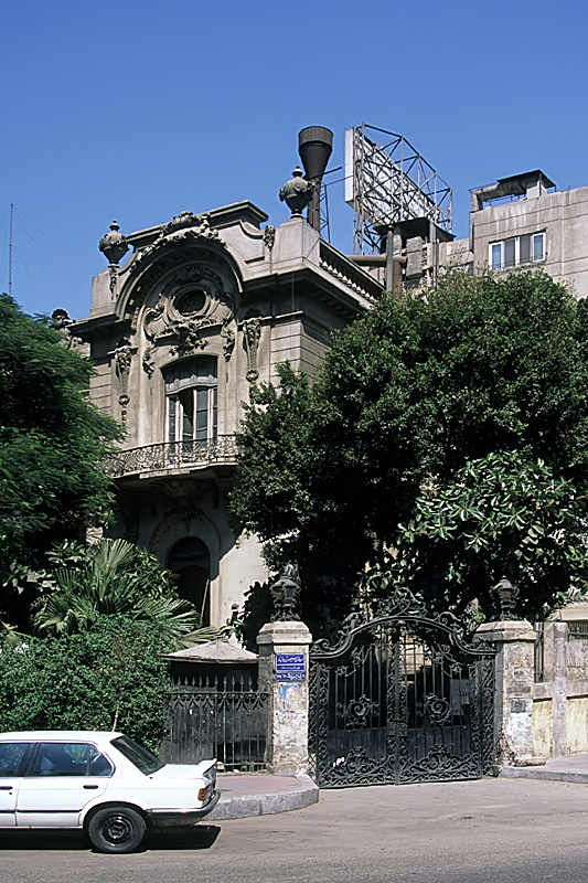 Villa Casdagli, Abd el-Latif scholl, Qasr el-Dubara, Cairo, Egypt